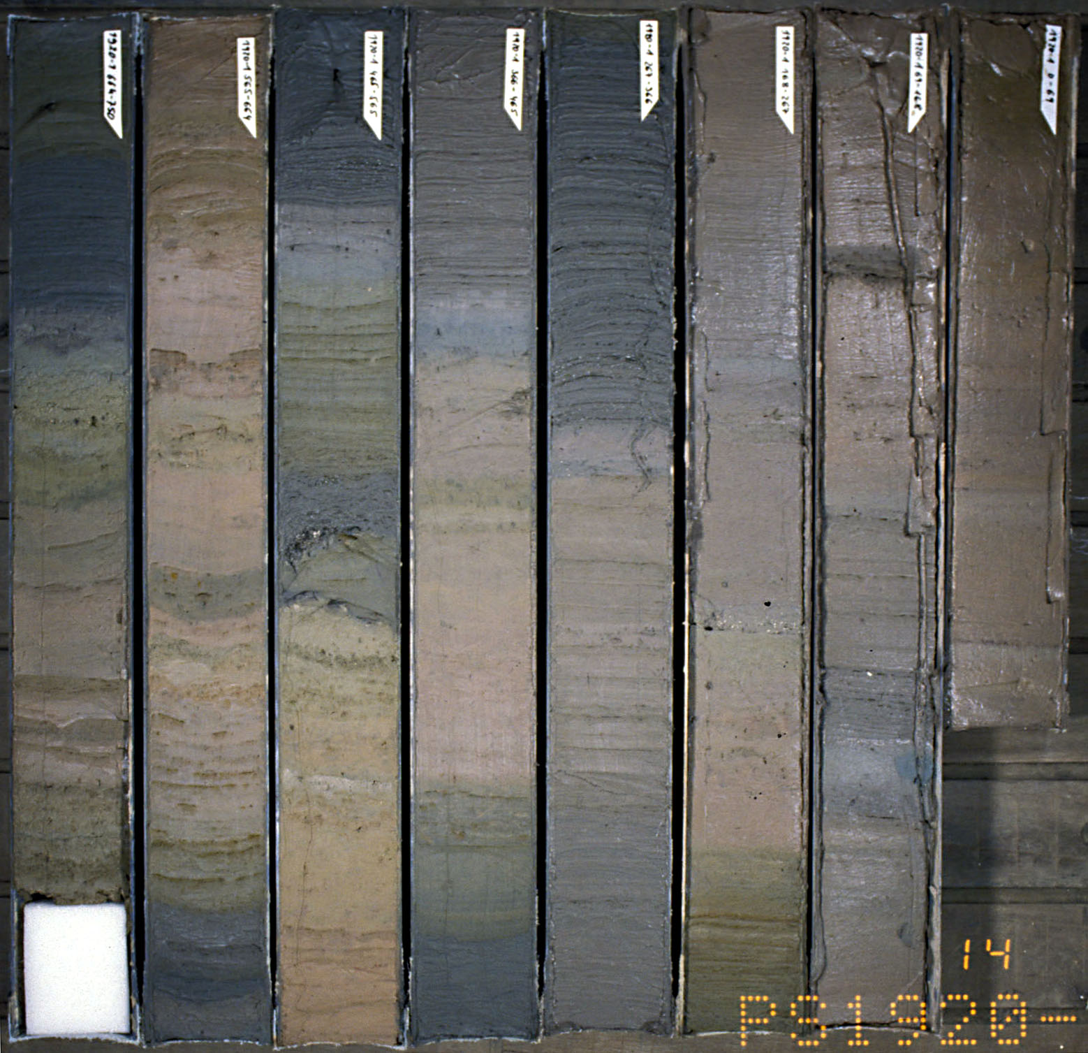 Sediment core, taken with a gravity corer at the Greenland continental slope, 74°59′46″N 11°03′36″W / 74.996°N 11.06°W.